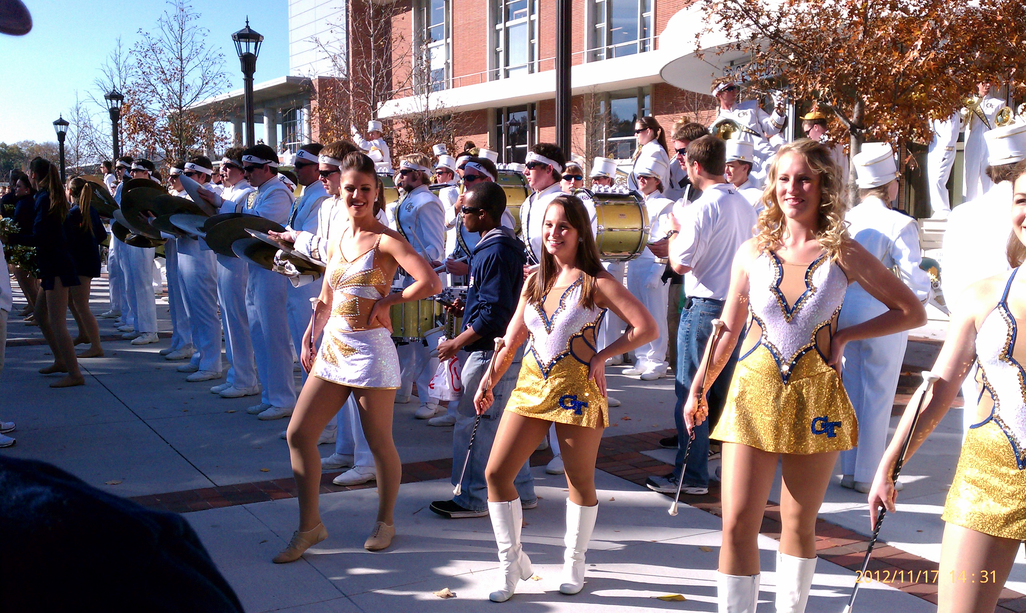 GT Marching Band in front of campus library before Duke football game